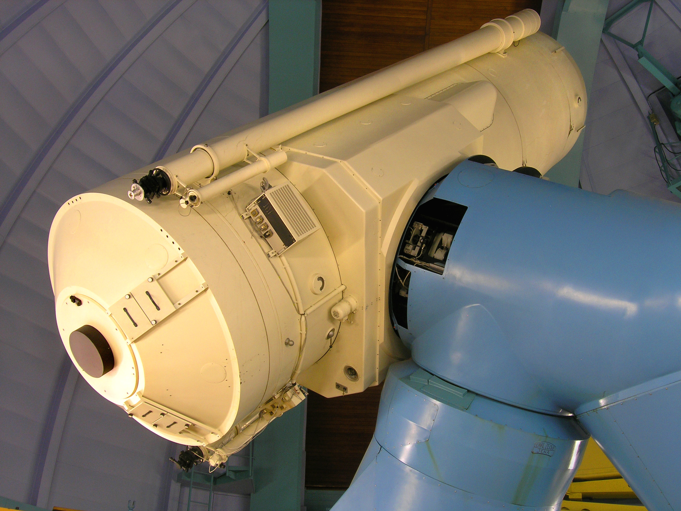 The biggest Czech telescope – 2-m reflector from the Czech Astronomical Institute in Ondřejov